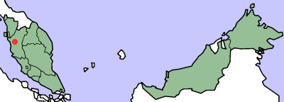 modified from Image:MapMalaysiaIpoh